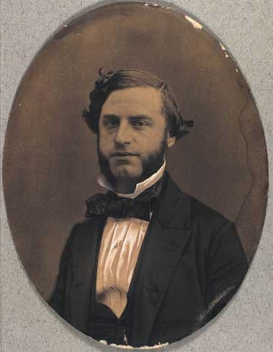 Ernst Gustav Lotze (1825-1893), Danish pharmacist and politician